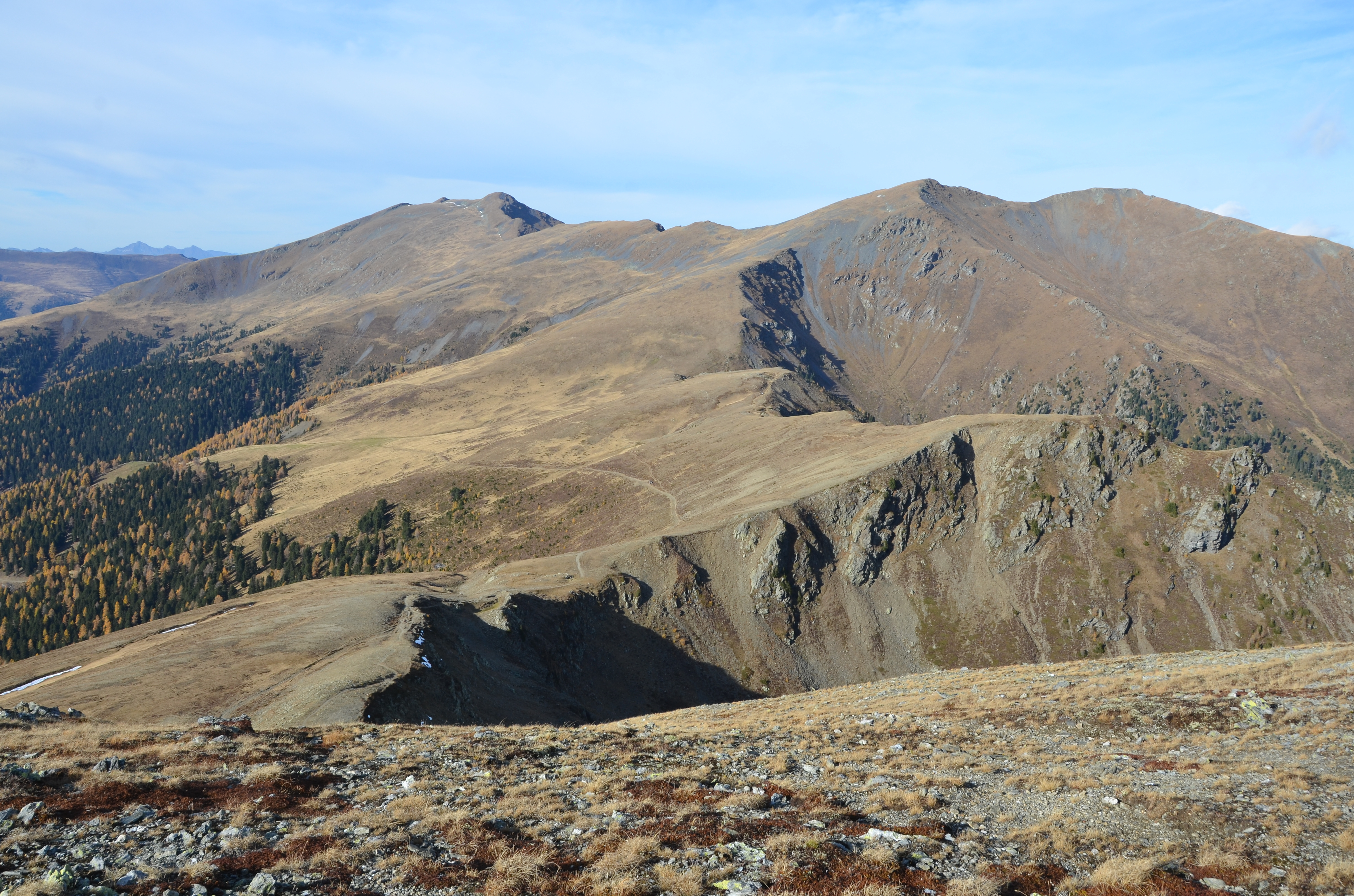 View from the Lattersteighoehe (2264 m) at the mountains Eisenhut (2441 m) and Wintertalernock (2394 m), part of the Nockberge at Turrach, municipality Predlitz-Turrach, district Murau, Styria / Austria / EU